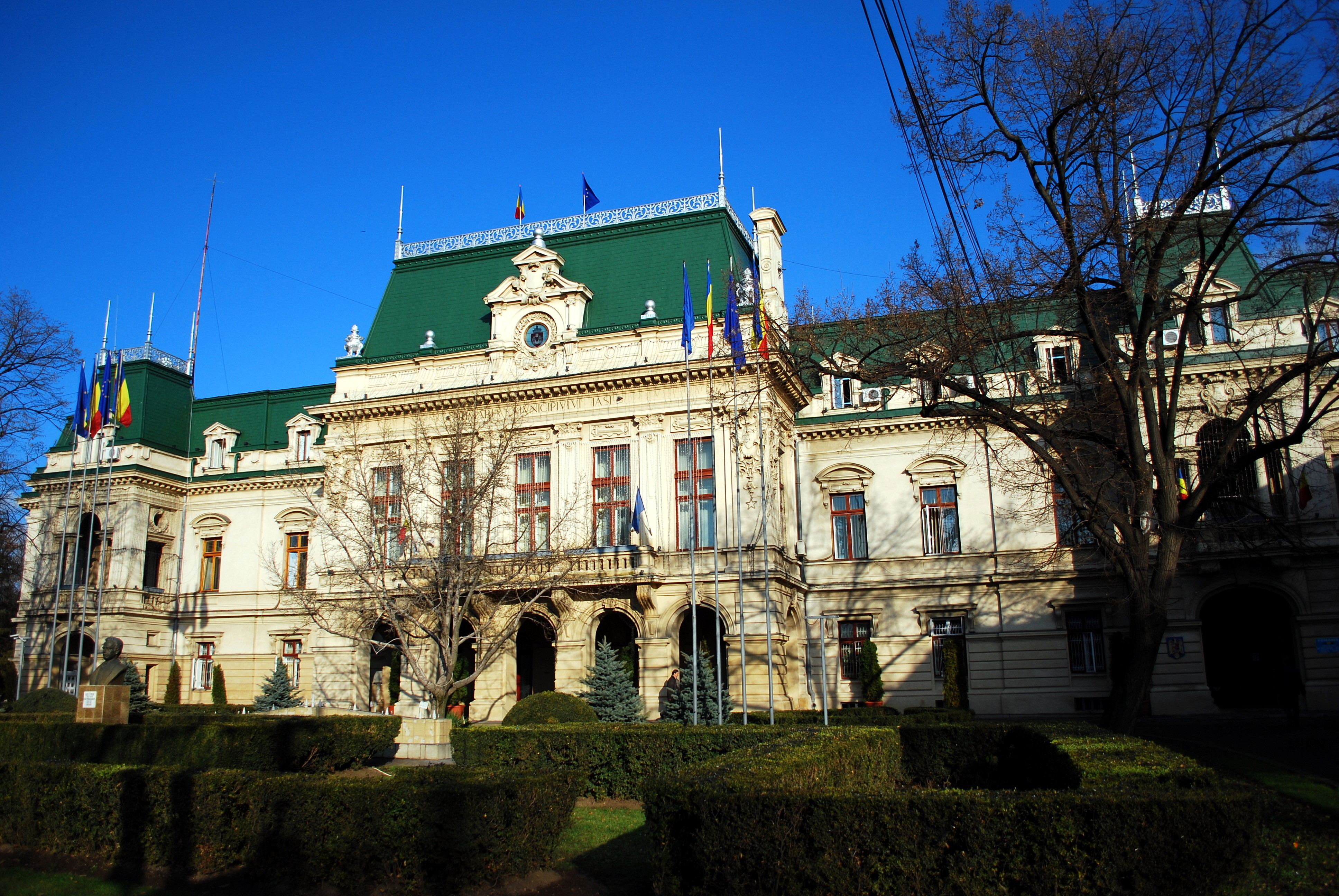 The Roznoveanu palace (inaugurated 1832), Iaşi, Romania city hall